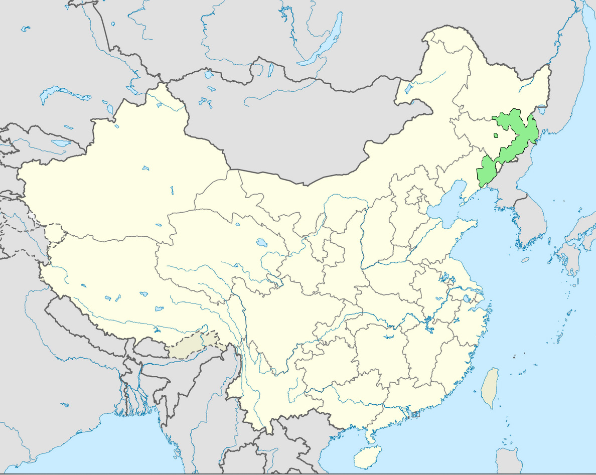 Acer triflorum areal